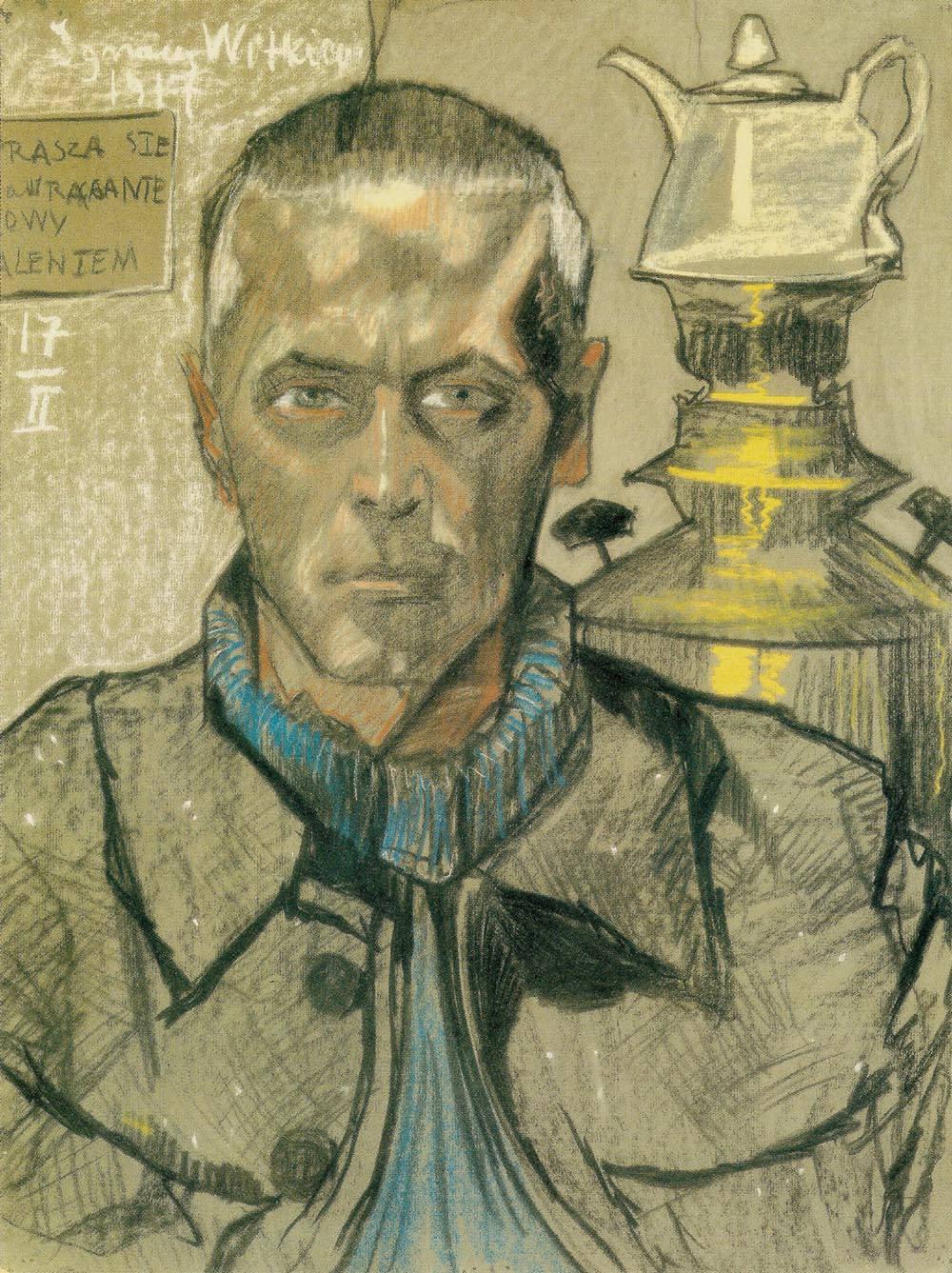 Self-portrait with samovar. Private collection